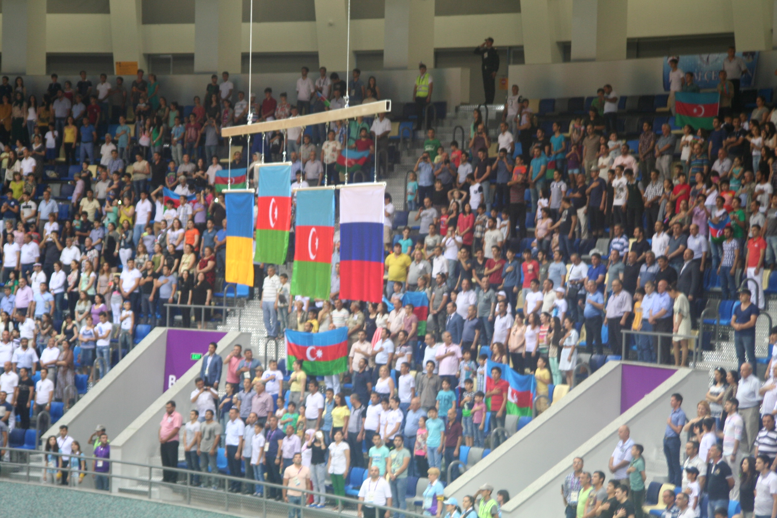 Azeri fans at Heydar Aliyev Arena (Judo at the 2015 European Games) and awarding ceremony